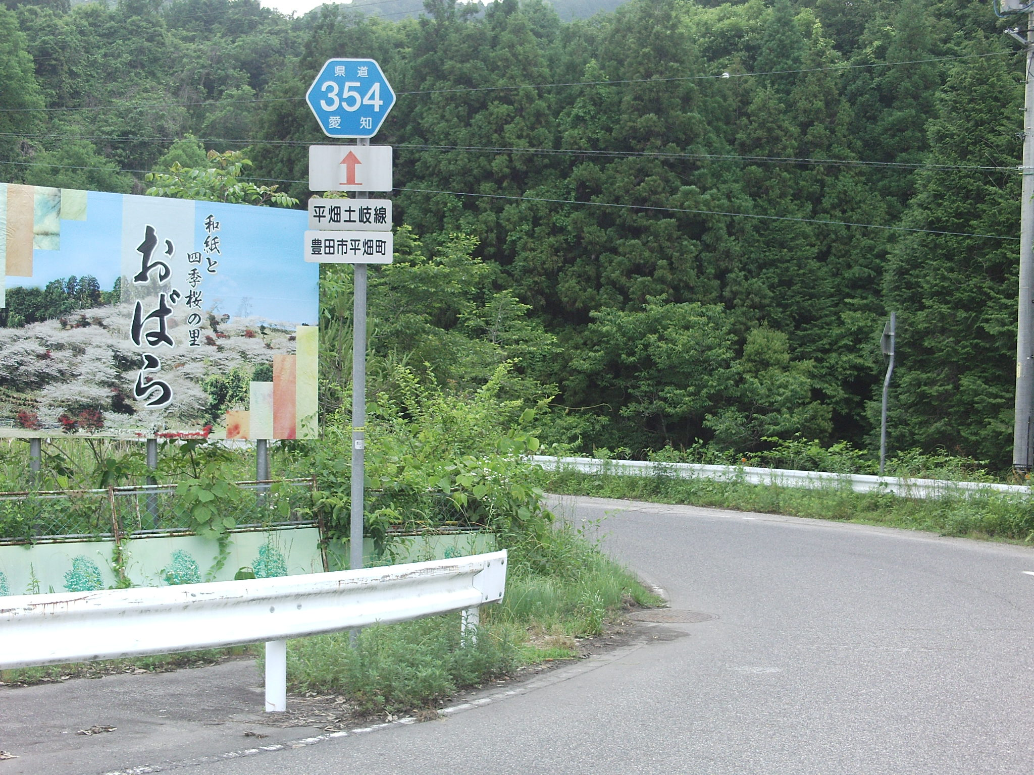 Aichi prefectural road No.354 in Hirahatacho, Toyota, Aichi.